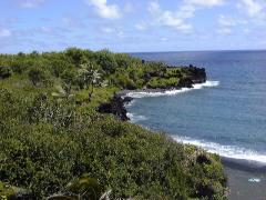 Black sand beach at Wainapanapa, in Maui. Photo by LDC, released to the public domain.